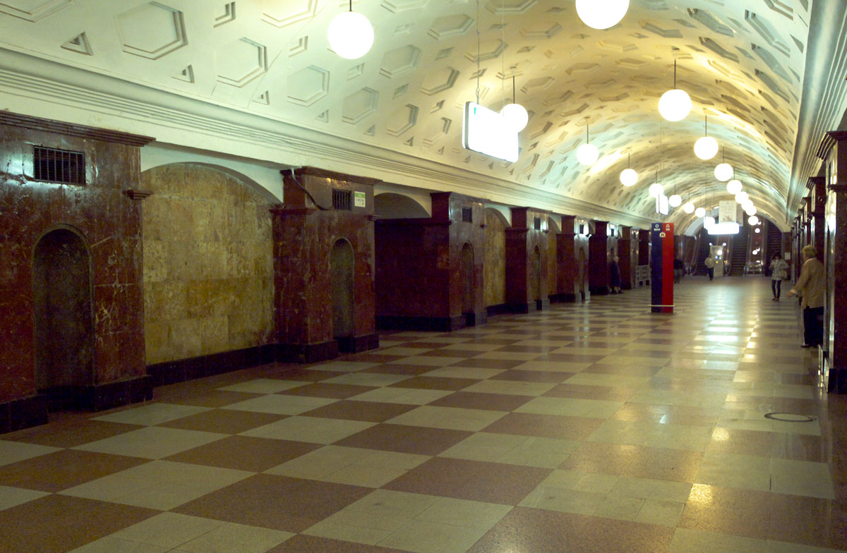 Krasnye Vorota station of Moscow Metro